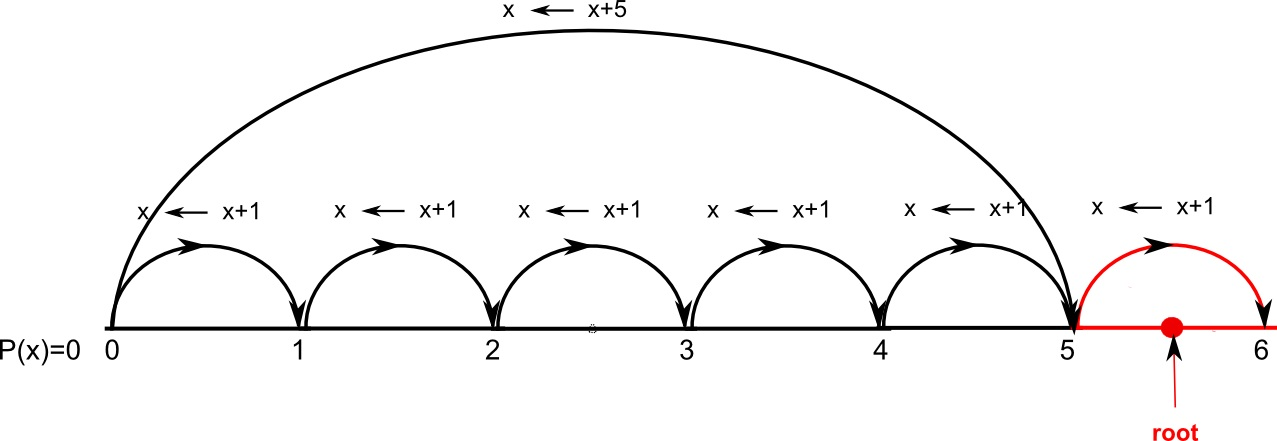 An application of the VAS method